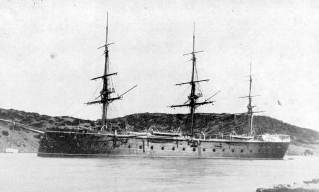 Spanish ironclad Vitoria in Mahón (Menorca)